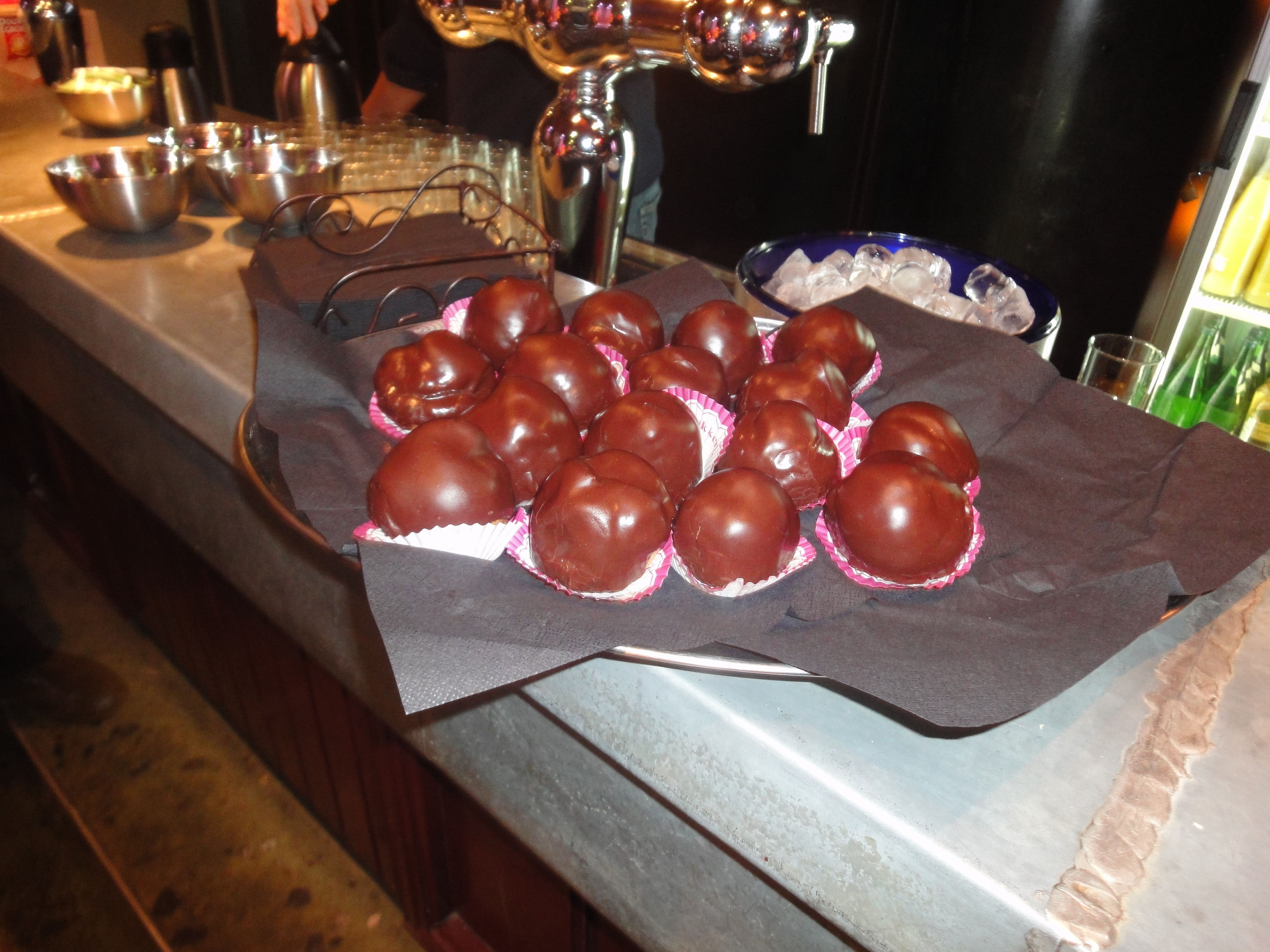 A dish with a number of Bosche Bol's. Taken at the 10 year anniversary of Wikipedia Nederland in Den Bosch